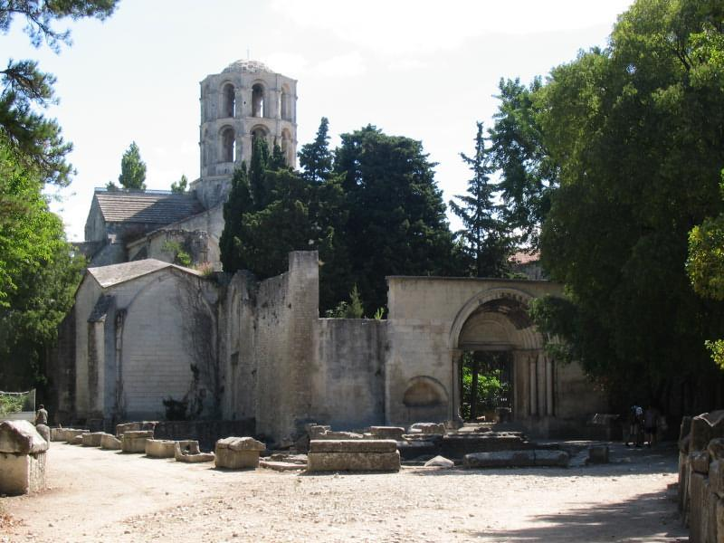 Arles, LesAlyscamps, medieval church of SaintHonorat.